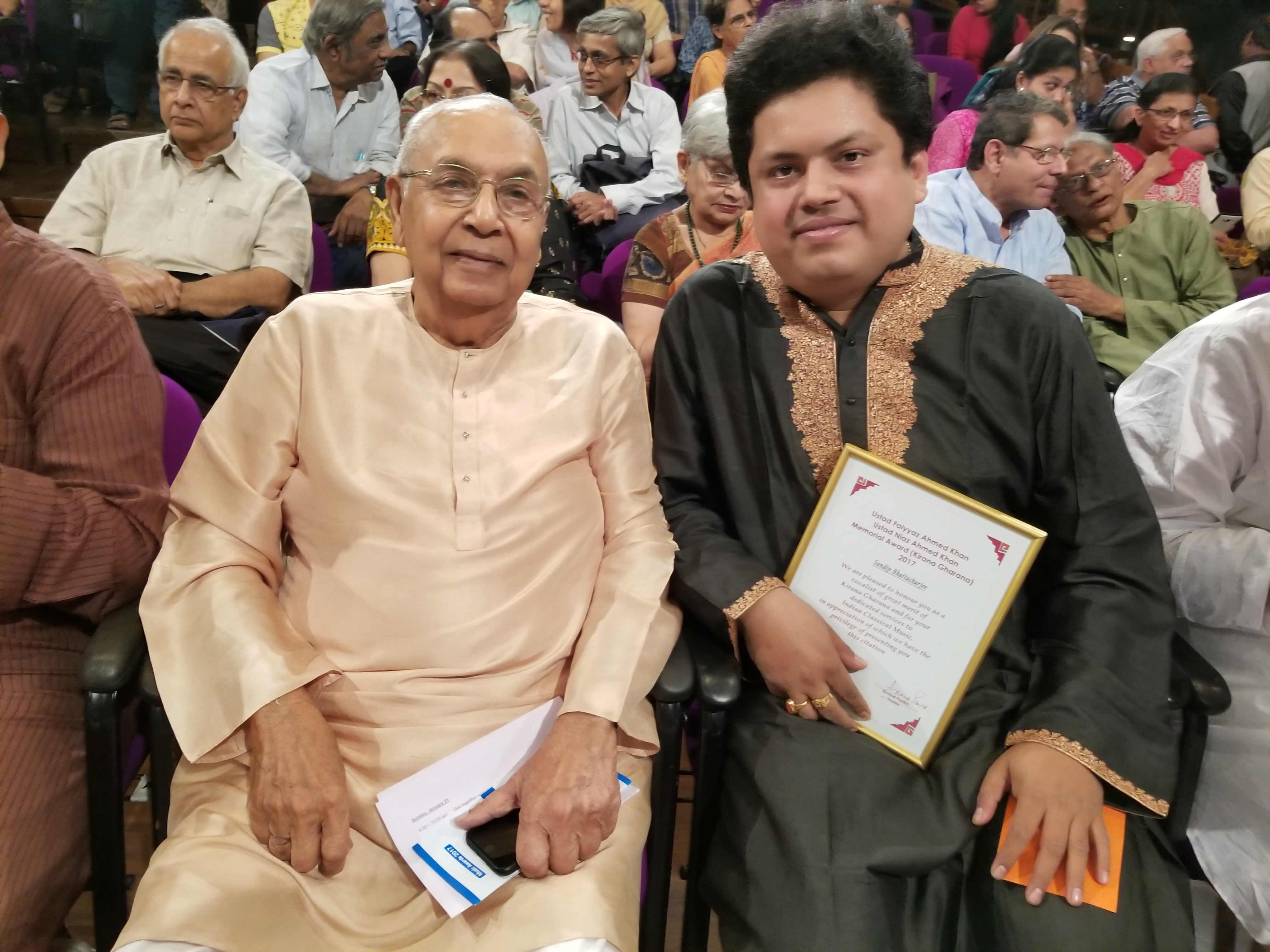 Sandip received “Ustad Faiyyaz Ahmed Khan & Ustad Niaz Ahmed Khan Memorial award (Kirana Gharana) 2017 “(Mumbai) as a vocalist of great merit of Kirana Gharana and for his dedicated service in Indian Classical Music .